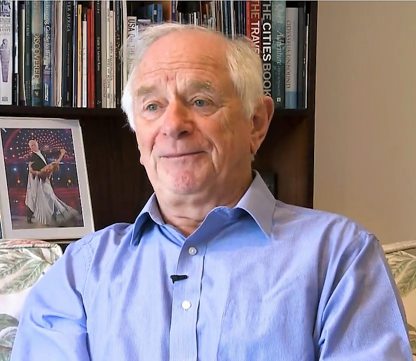 Eureka! Ambassadors - Johnny Ball Johnny Ball talks about his long relationship with Eureka! We go way back!